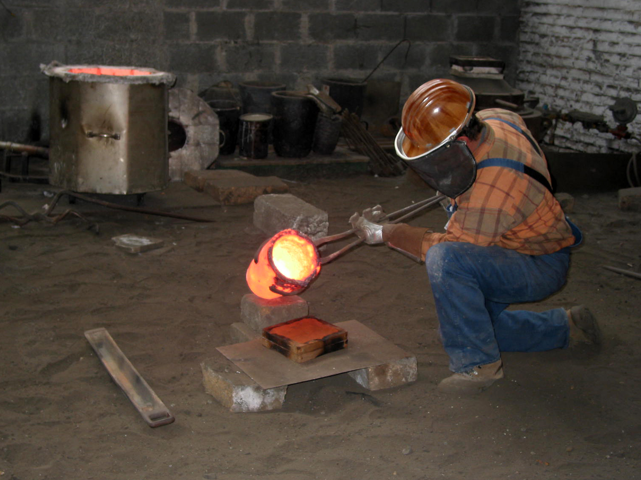 The Foundry worker.